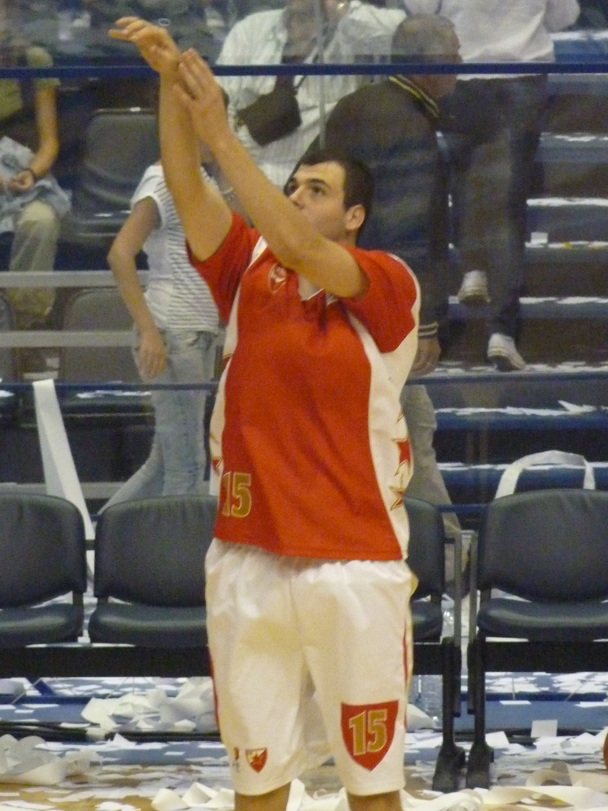 Sava Lesic, basketball player